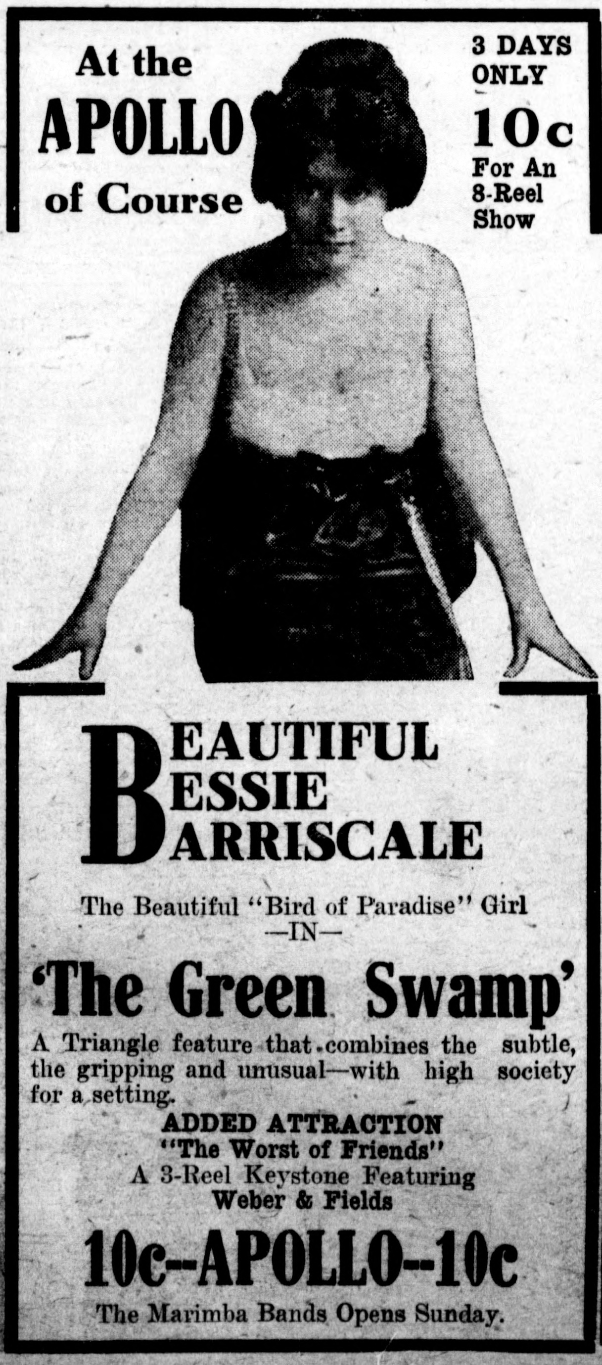 The Green Swamp is a 1916 silent drama starring Bessie Barriscale and written by C. Gardner Sullivan. This is from a newspaper advertisement.